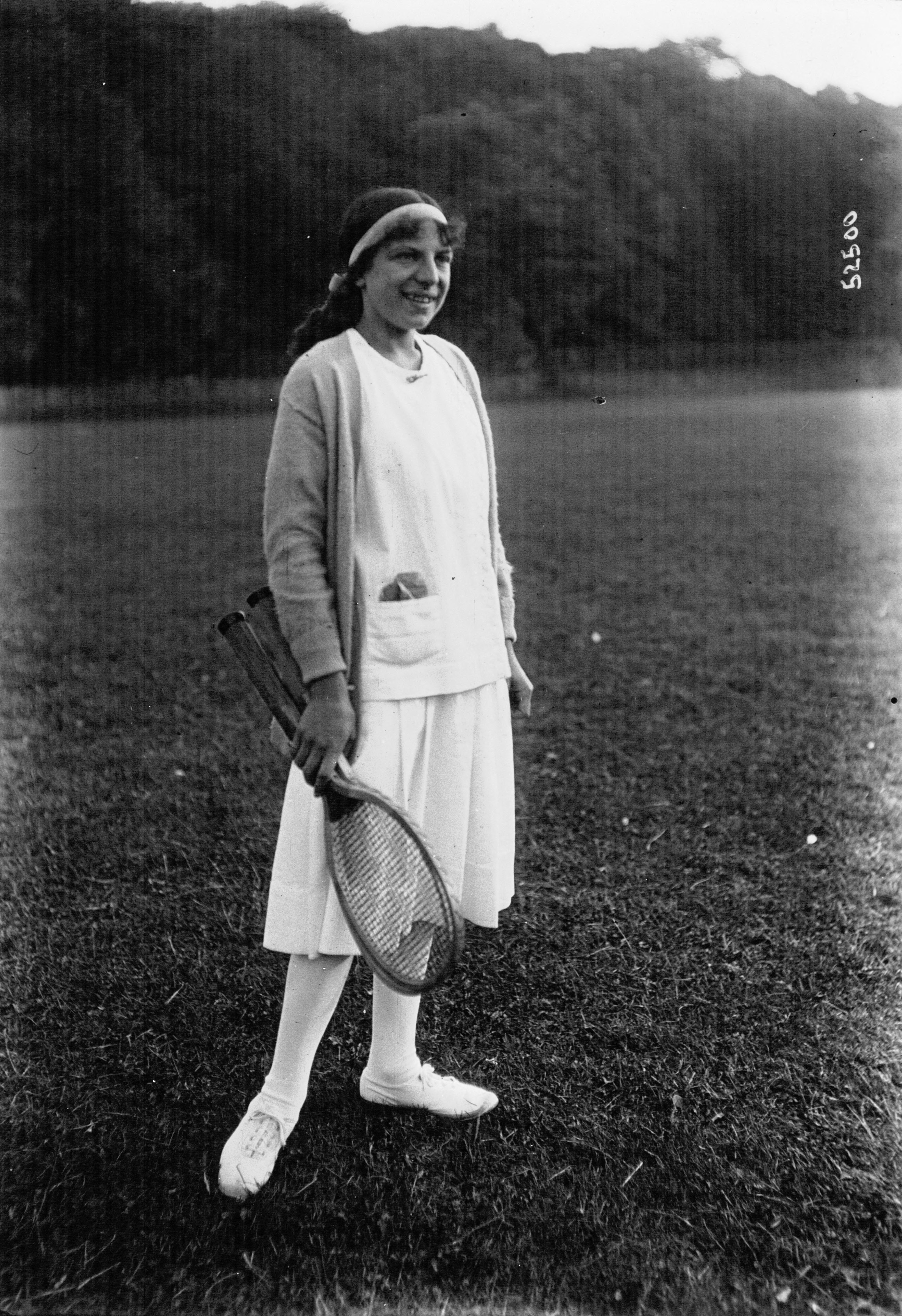 French tennis player Suzanne Lenglen at the 1914 World Championships